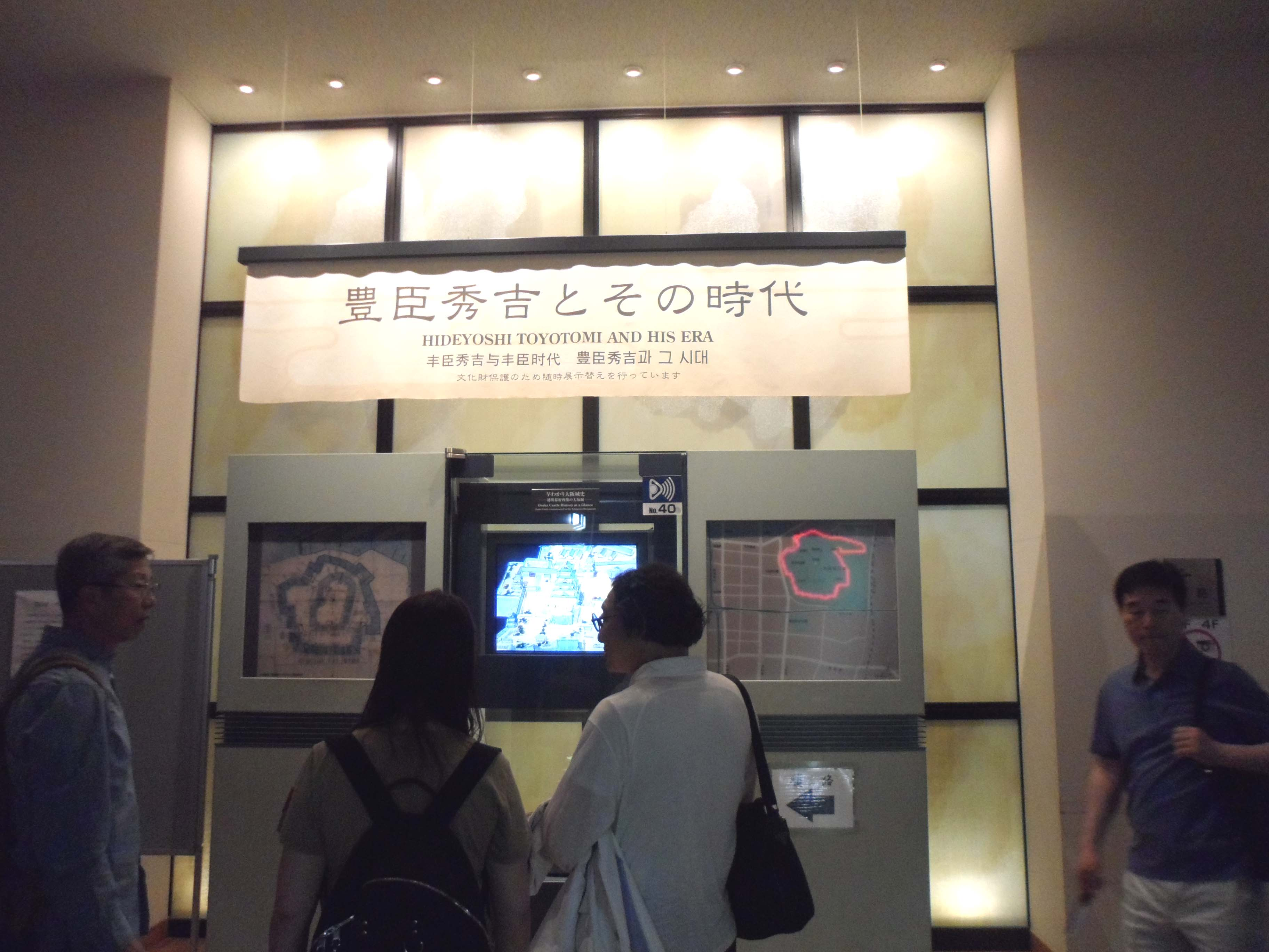 Inside Osaka Castle